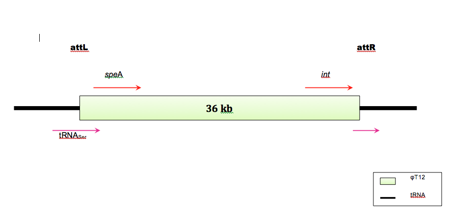 This image shows how known genes of bacteriophage T12 are arranged once the phage chromosome has integrated into the chromosome of S. pyogenes. The green box represents the phage chromosome, while the black line represents the bacterial chromosome into which T12 integrates. The arrows in the diagram show the direction in which the genes are transcribed. The red arrows show the arrangement of the speA and int genes. The pink arrows indicate only the orientation of the serine tRNA gene into which the phage integrates. The coding region of the serine tRNA gene remains intact even after the phage integrates.